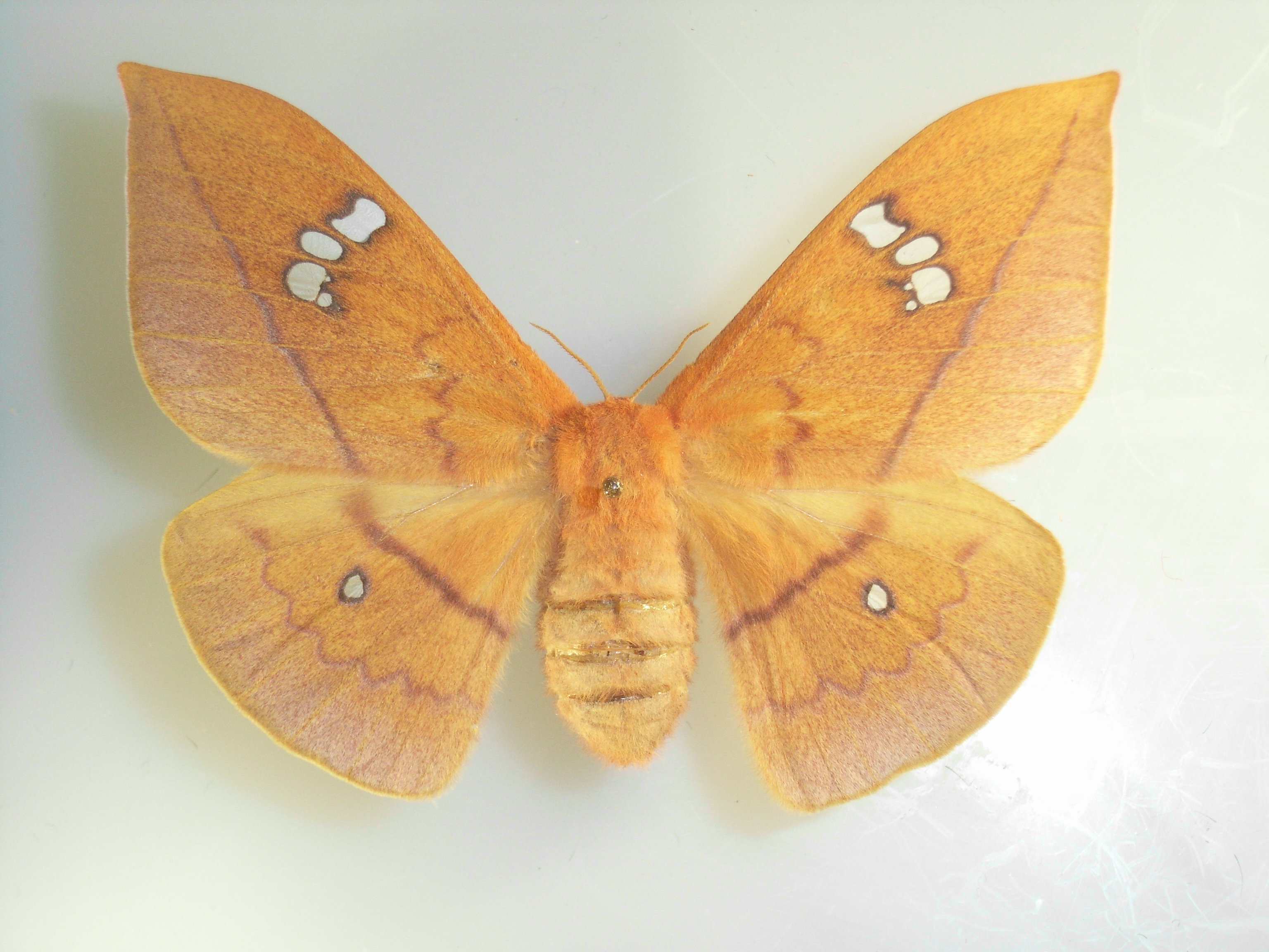 Cricula trifenestrata Helfer, 1837 Female Assam India Ex coll. Felix Stumpe